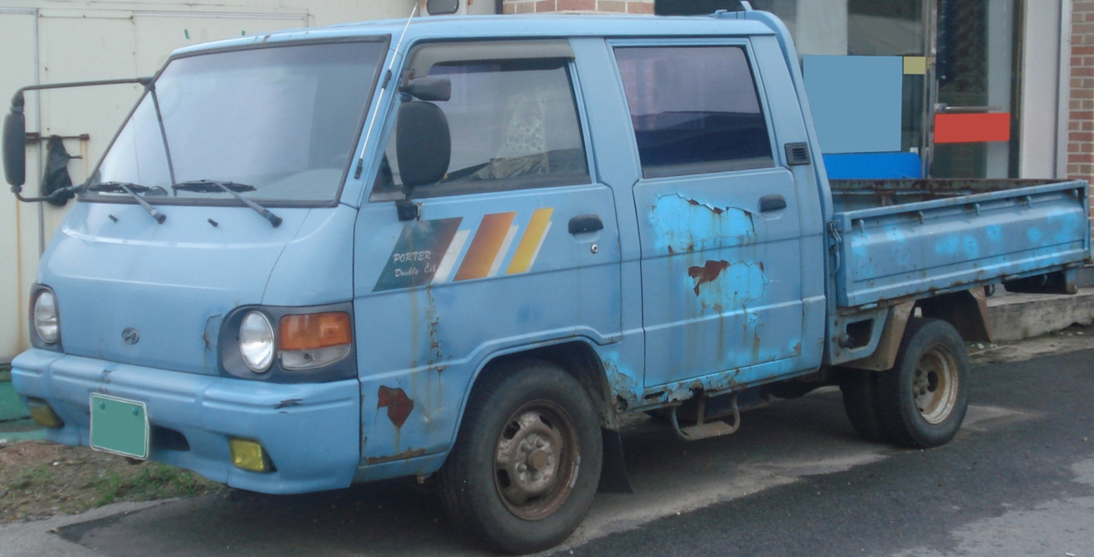 Hyundai Porter